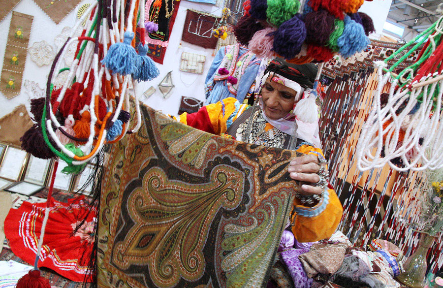 The second Iran's International handicraft Exhibition at Iran International Permanent Fairground.